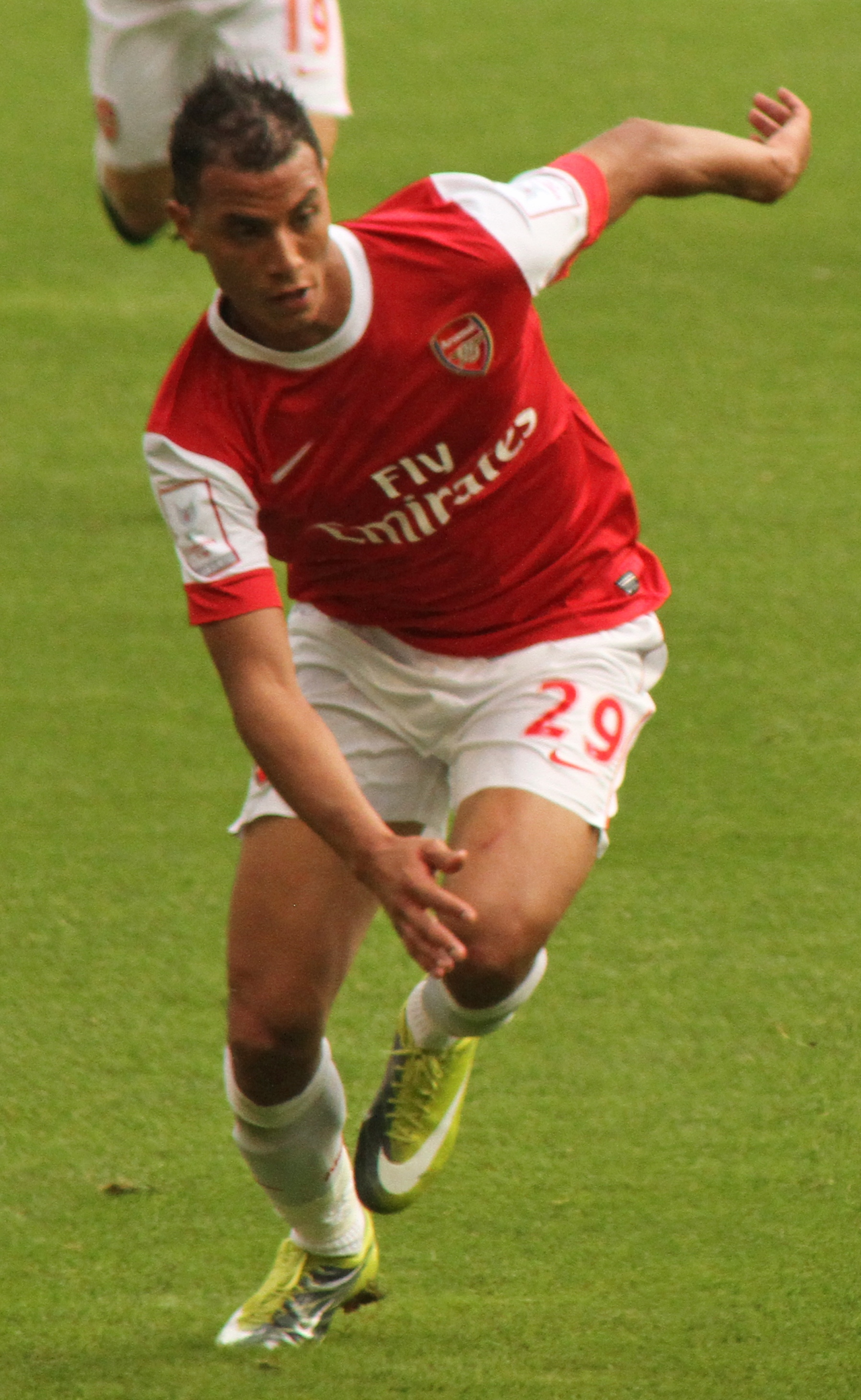 Marouane Chamakh during Emirates Cup 2010